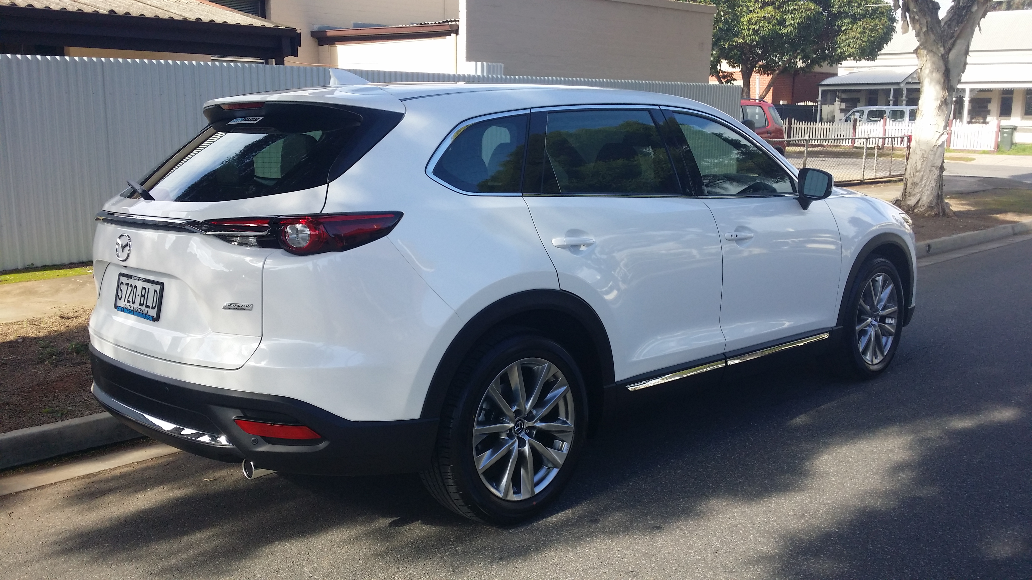 2016 Mazda CX-9 (TC MY16) Azami 2WD wagon. Photographed in South Australia, Australia.